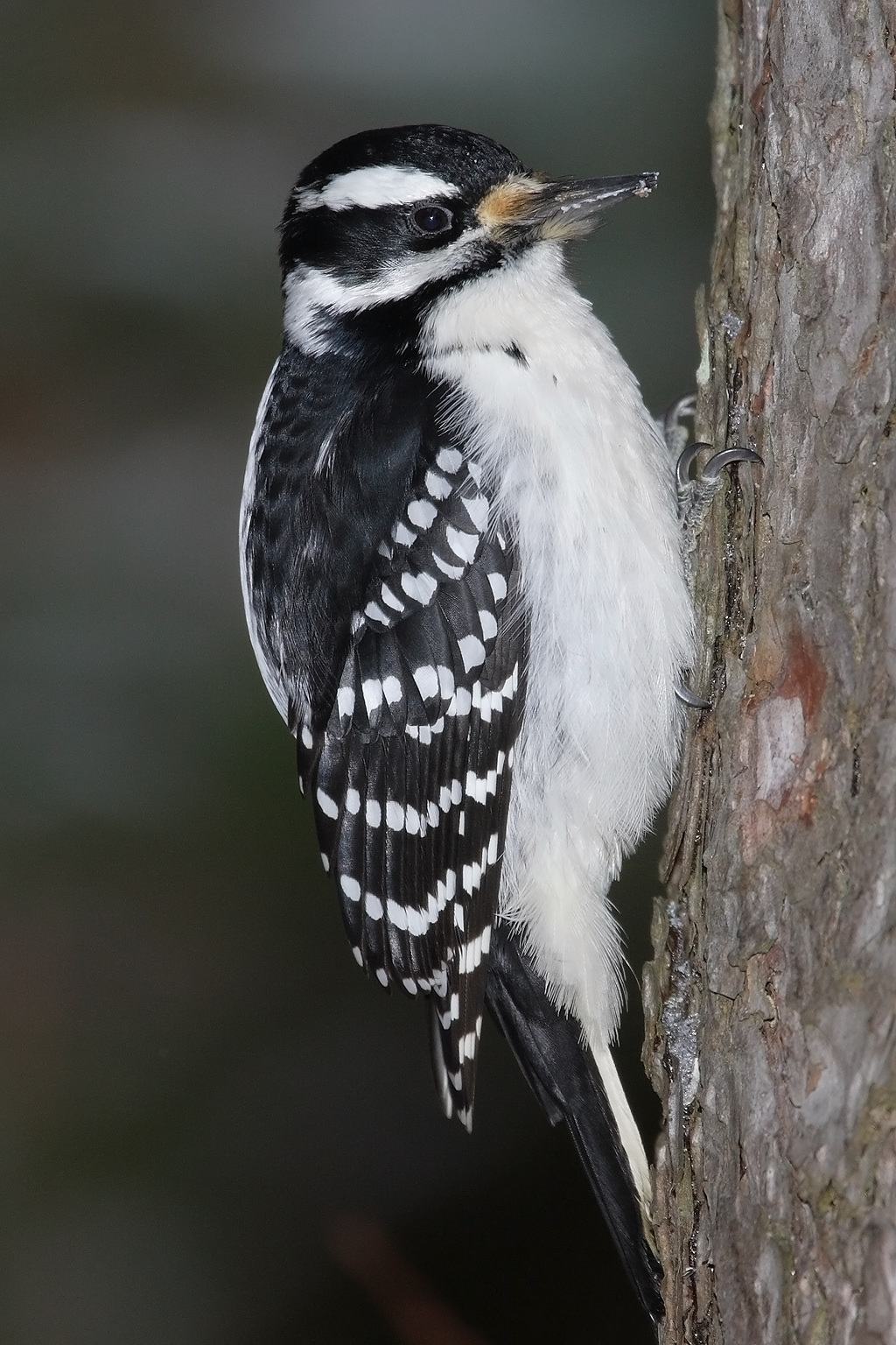 Hairy Woodpecker (female) -- Algonquin Provincial Park -- 2007 December